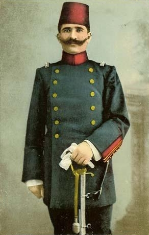 Ahmed Niyazi Rsneli